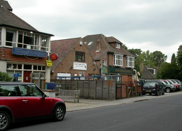 Rushmoor. The Post Office, country store and garage which make up the total retail experience of the village of Rushmoor.